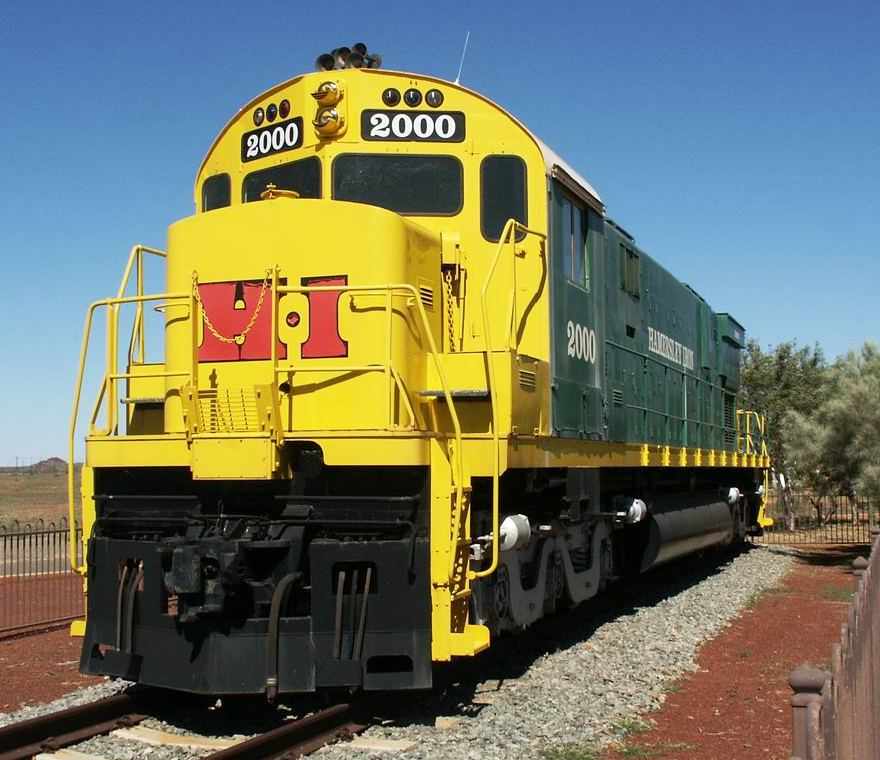 Hamersley Iron 20 class locomotive at 7 Mile Yard entrance, Dampier, Western Australia.